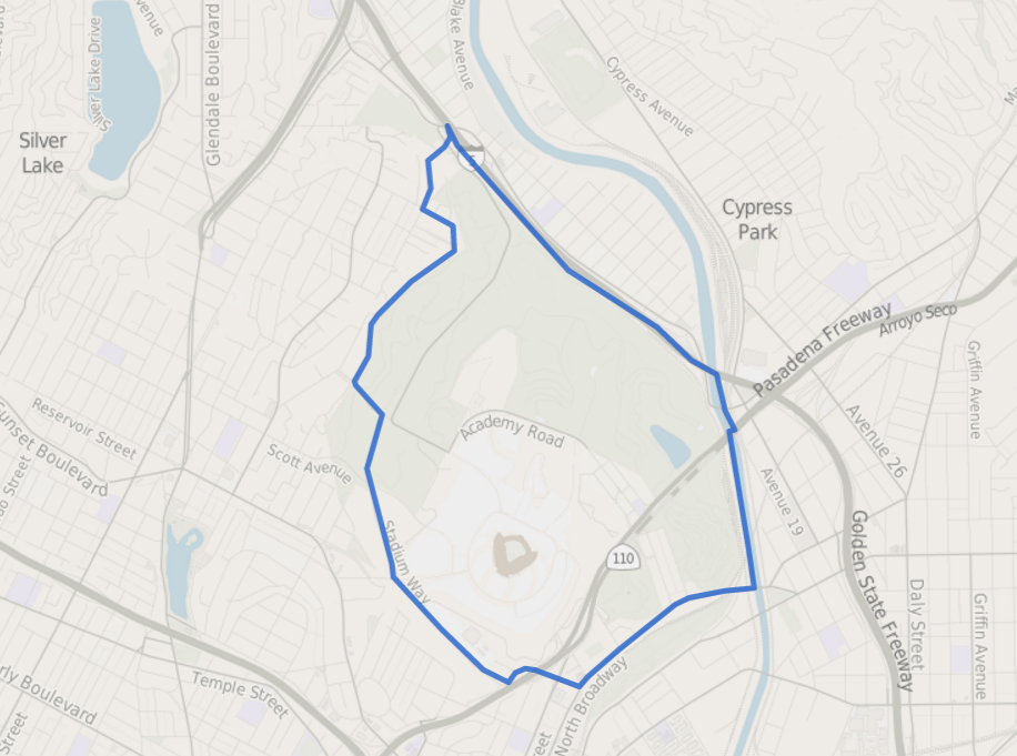 Portion of an outline map of Elysian Park neighborhood in Los Angeles, California, as posted in the Mapping L.A. project of the Los Angeles Times.